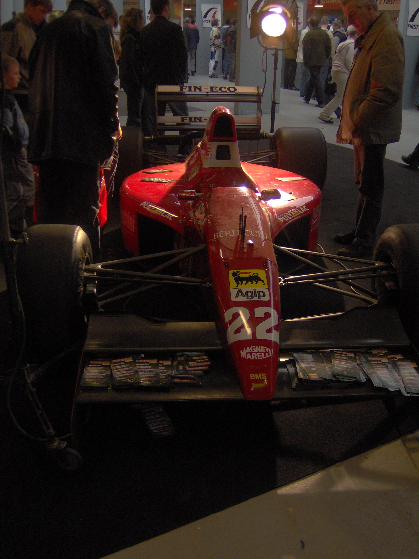 The JJ Lehto's Dallara-Judd 191 of BMS Scuderia Italia, 3rd classified at the 1991 San Marino Grand Prix of Formula One.